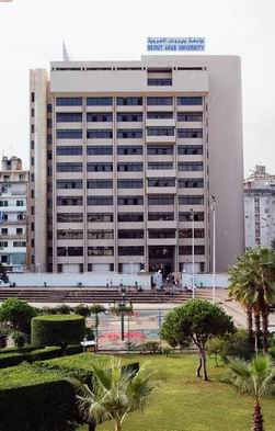 Beirut arab university